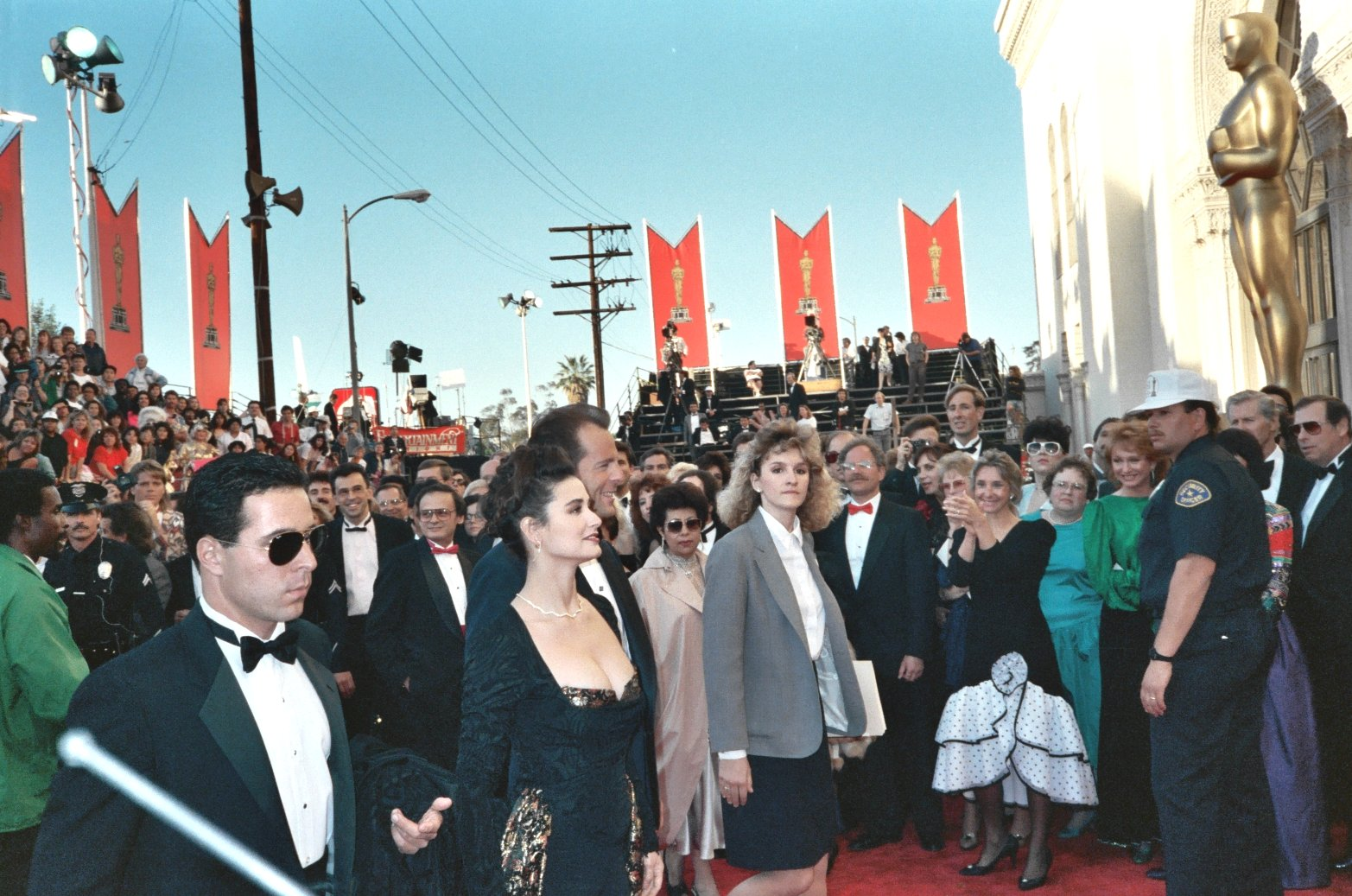 Demi Moore and Bruce Willis, 61st Annual Academy Awards, 1989.